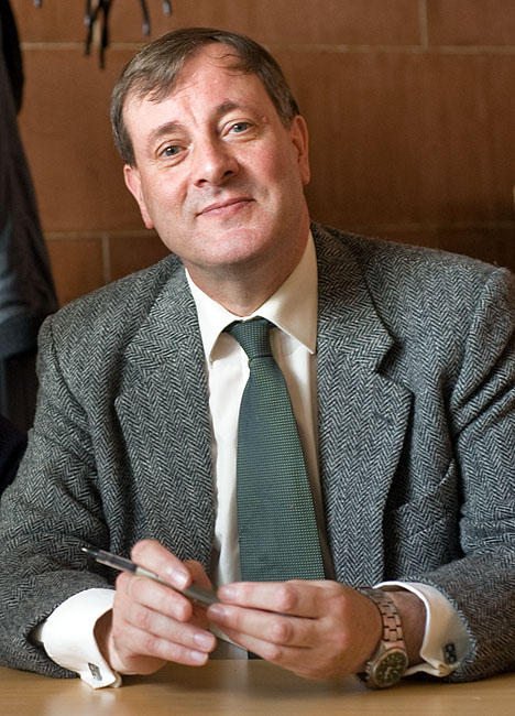 Dr. Alister McGrath poses for a picture while autographing his book after a lecture at the University of Iceland.